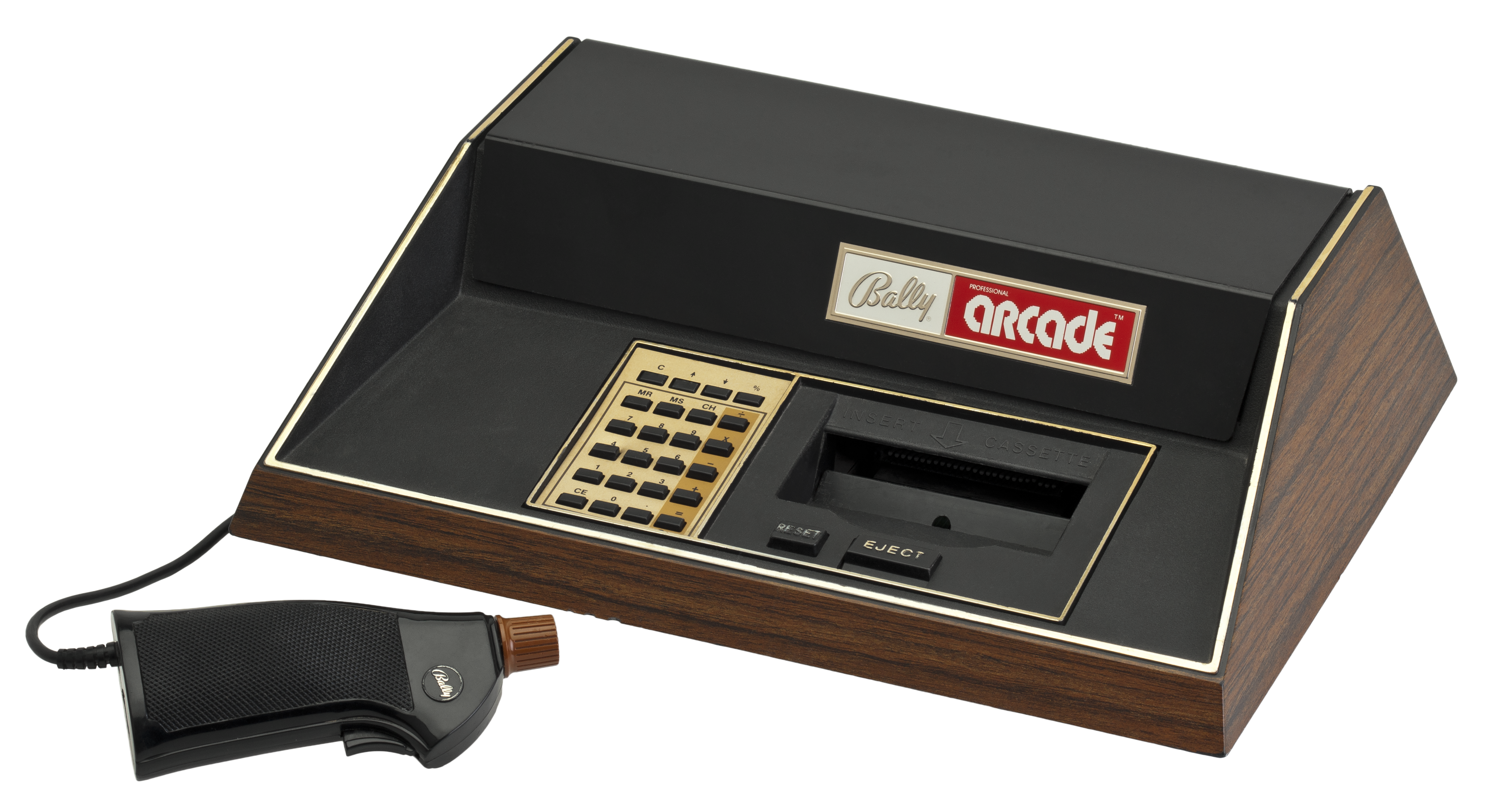 The Bally Professional Arcade, one of the many names of a 2nd generation video game console released by Bally in the late '70s and early '80s.